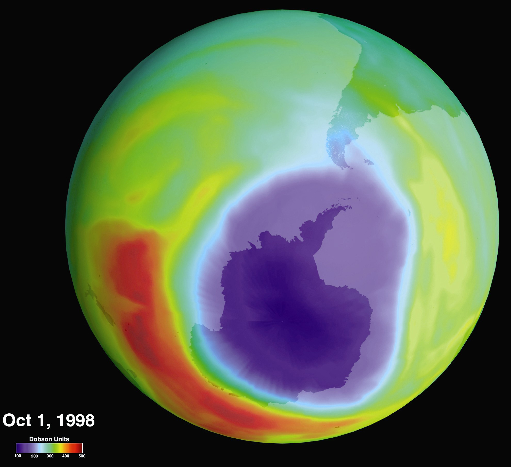 In 1985, a British scientist working in Antarctica discovered a 40 percent loss in the ozone layer over the continent. When Goddard Space Flight Center researchers reviewed their data, they confirmed the ozone loss. Since then, scientists have relied on instrumentation developed by Goddard to keep track of the environmental phenomenon, which in the 1990s prompted a worldwide ban on chlorofluorocarbons (CFCs), a chemical used for refrigeration and other industrial uses. In this image, the blue/purple areas show low ozone, while the red areas indicate higher ozone levels. Although ozone is considered a pollutant in the troposphere?the atmospheric layer that contains the air we breathe?in higher altitudes, notably in the stratosphere, ozone is considered vital. Stratospheric ozone blocks harmful ultraviolet radiation produced by the Sun. Scientists worry that the large ozone opening over the poles generally deplete ozone levels around the globe, which could cause a health risk to animals and plants.